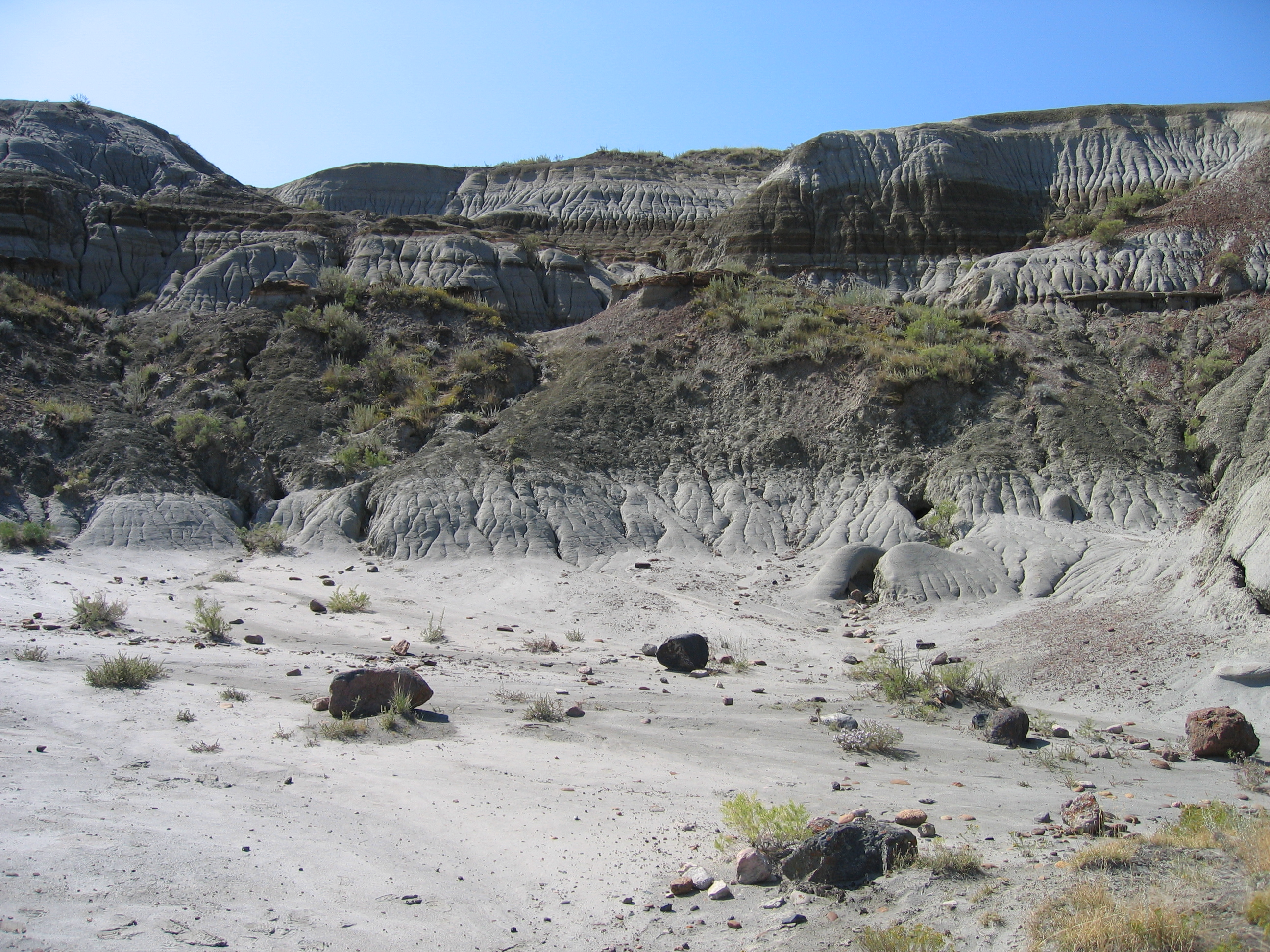 Dinosaur Provincial Park, Alberta, Canada